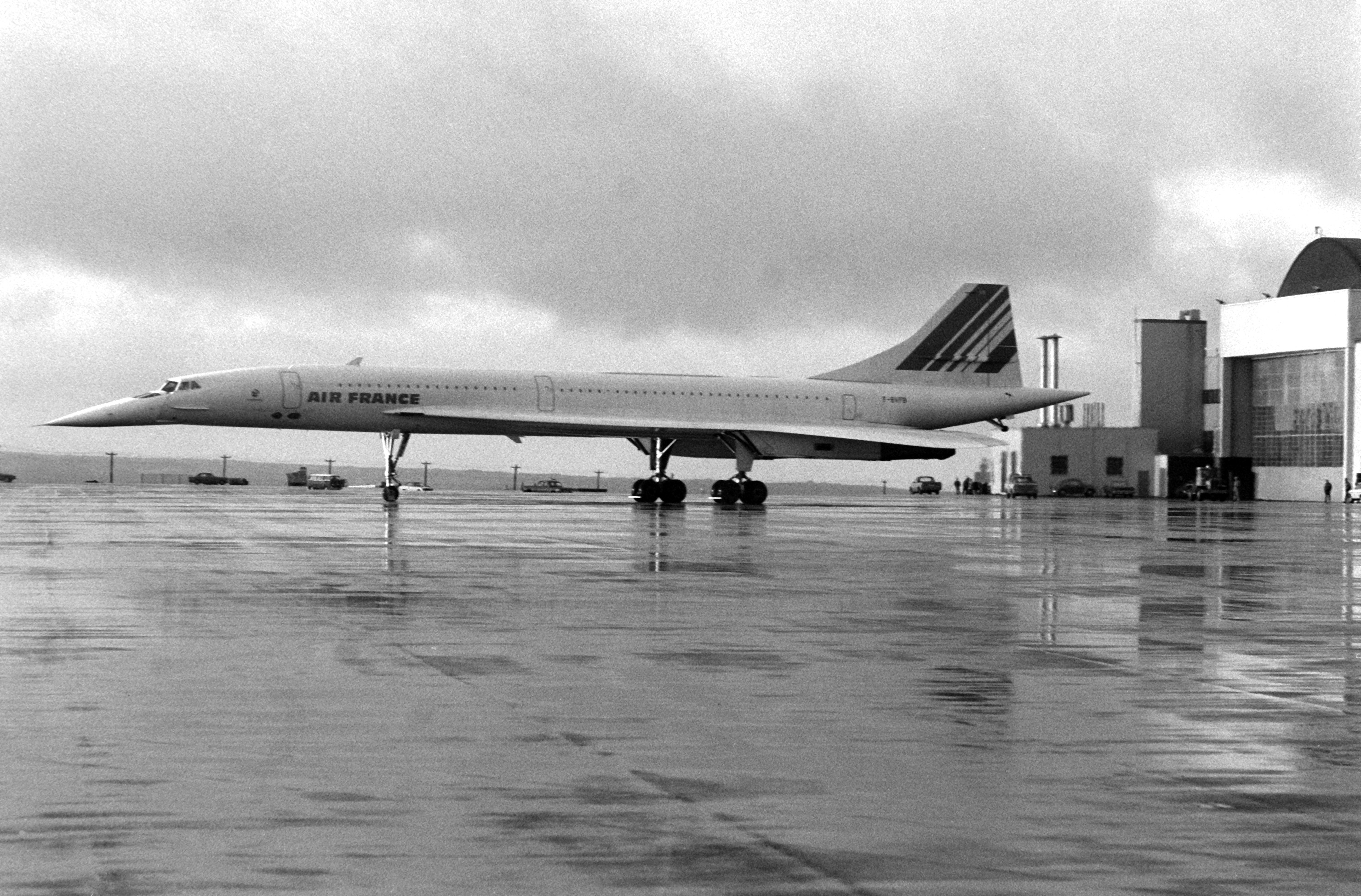 A left side view of an Air France Concorde supersonic passenger aircraft parked on the flight line during a stopover at the air station.